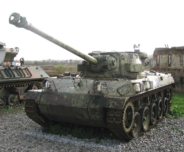 M18 Hellcat (Turanj, Karlovac, Croatia)